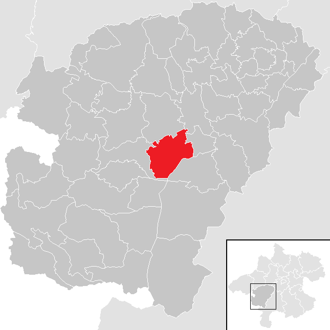 District Vöcklabruck